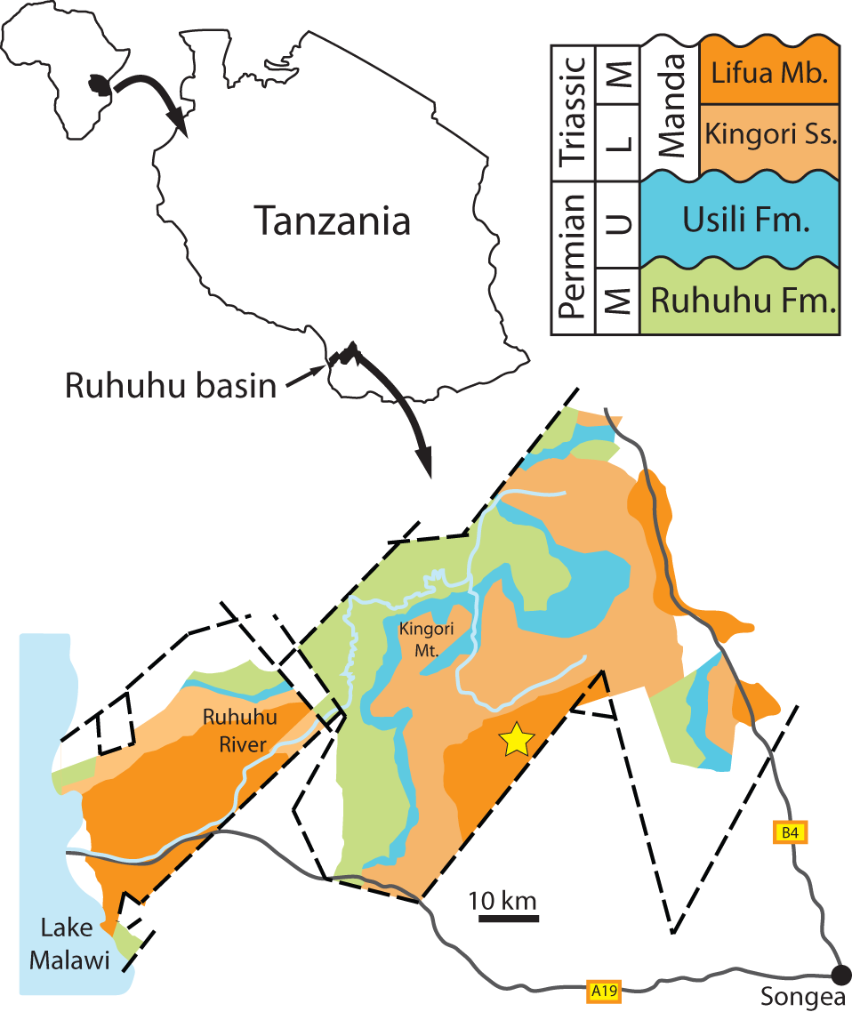 Holotype locality of Asperoris mnyama (NHMUK PV R36615) in the Lifua Member of the Manda beds, Ruhuhu Basin, southwestern Tanzania, Africa. Star indicates the approximate position of the holotype locality of Asperoris mnyama. Outcrop area modified from Stockley (1932). Abbreviations: Fm, formation; L, lower; M, middle; Mb, member; Mt., mountain; Ss., sandstone; U, upper.